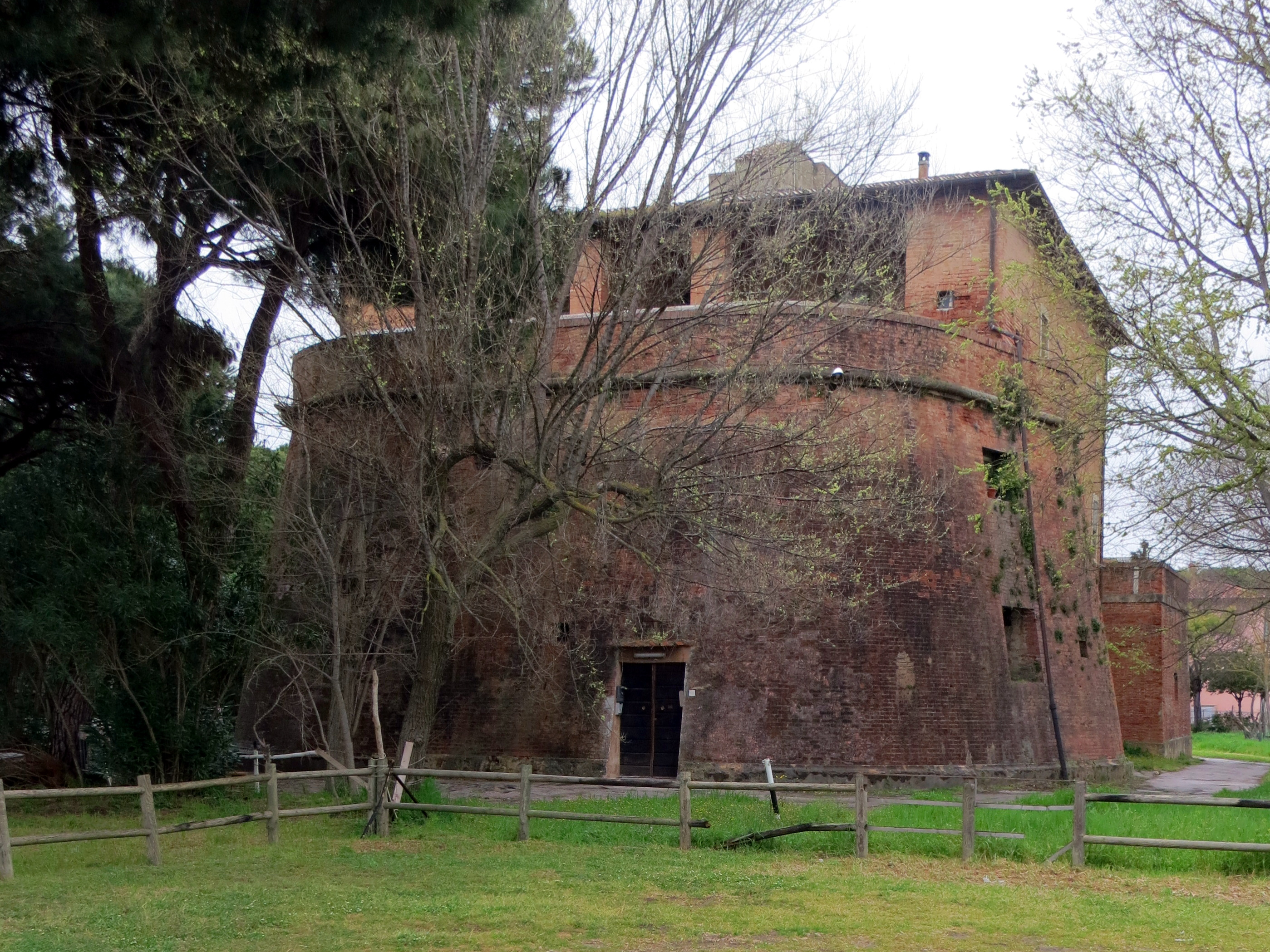 Forte San Rocco at Marina Grosseto in Italy. Photographed from South-West